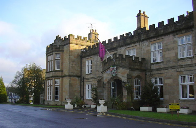 Mercure Dunkenhalgh Hotel & Spa. Blackburn Road. Clayton Le Moors. Lancashire. BB5 5JP